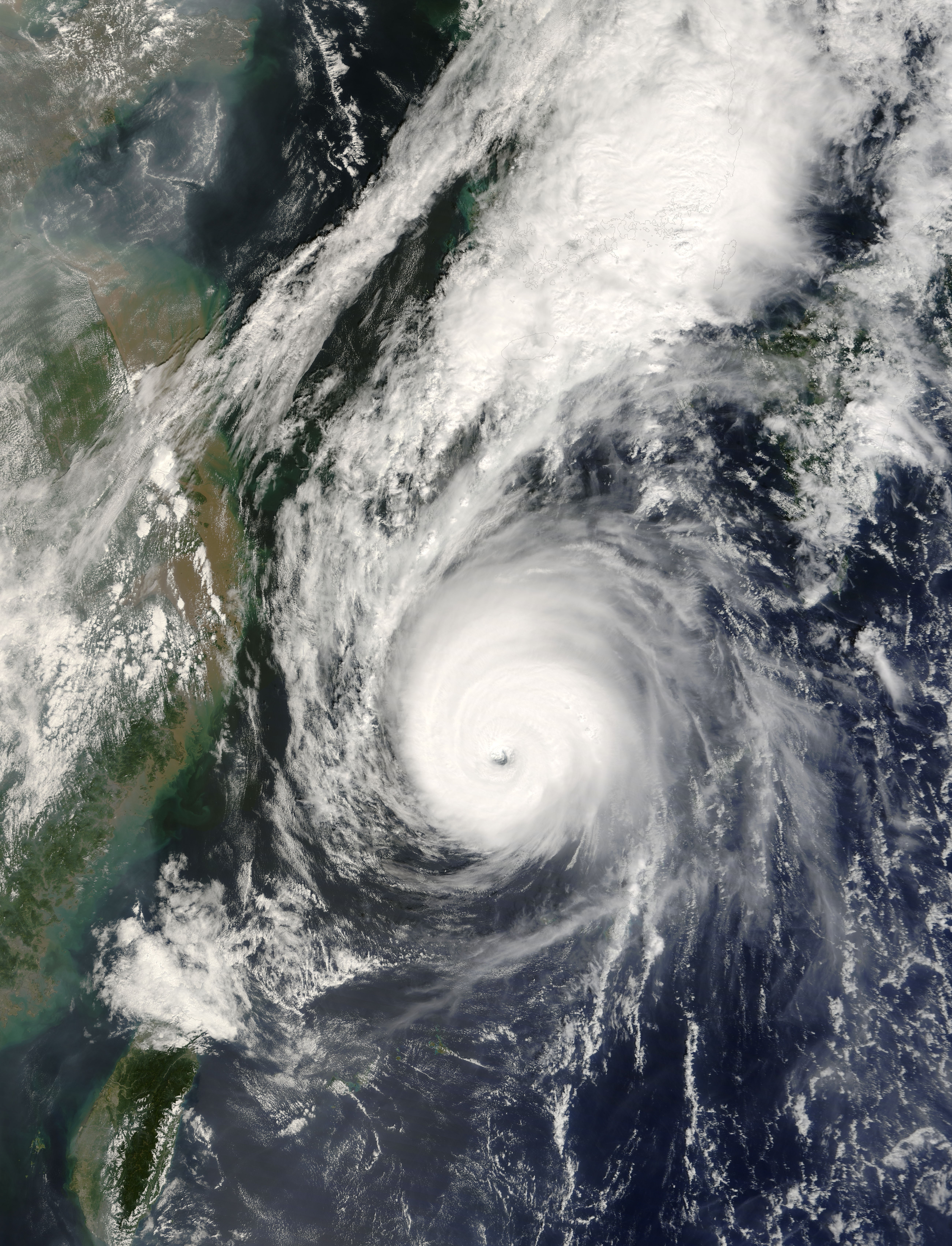 Typhoon Nari was a compact, but powerful storm as it churned north over the East China Sea toward Korea in mid-September 2007. The storm came ashore over South Korea as a Category 2 storm on September 16, causing at least one death and stranding some 15,000 travelers on the South Korean island of Jeju, reported Agence France-Presse. Nari was a far more powerful Category 4 storm, with winds of 220 kilometers per hour (140 miles per hour or 120 knots), on September 15, when the Moderate Resolution Imaging Spectroradiometer (MODIS) on NASA’s Terra satellite captured this photo-like image. The more powerful a tropical cyclone is, the more distinct and symmetrical its shape. At Category 4 strength, Nari was very “tidy” with well-organized bands of clouds tightly wound around a distinct eye in a near-perfect circle. The high-resolution image provided above is at MODIS’ full spatial resolution (level of detail) of 250 meters per pixel. The MODIS Rapid Response System provides this image at additional resolutions.